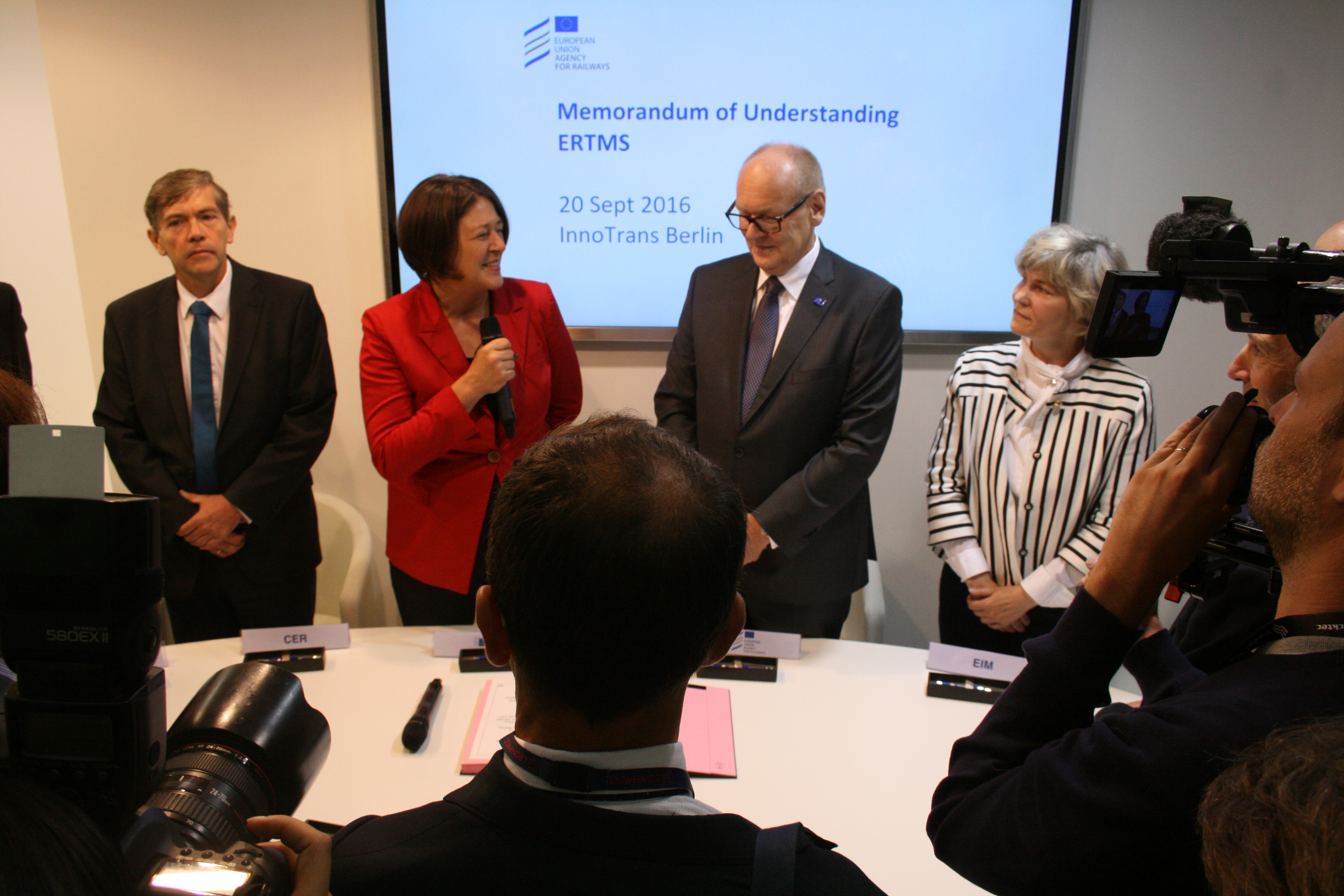 The memorandum of understanding on the future of ETCS before signing by various stakeholders: EU commissioner for transport, Violeta Bulc and ERA executive director Josef Doppelbauer give some introduction.